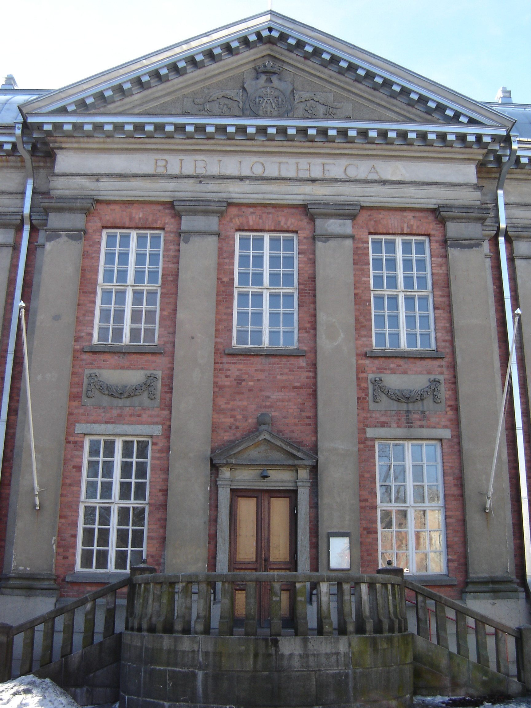 City library of Turku